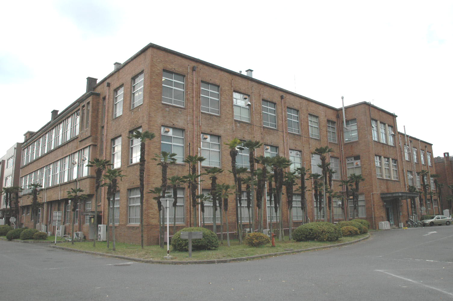 The Bldg. No.3 of Kyoto Institute of Technology. Located in Sakyō-ku, Kyoto, Japan. Originally built as the main bldg. of Kyoto College of Technology in 1930. Photograph taken by the original uploader on 15 Dec. 2007.